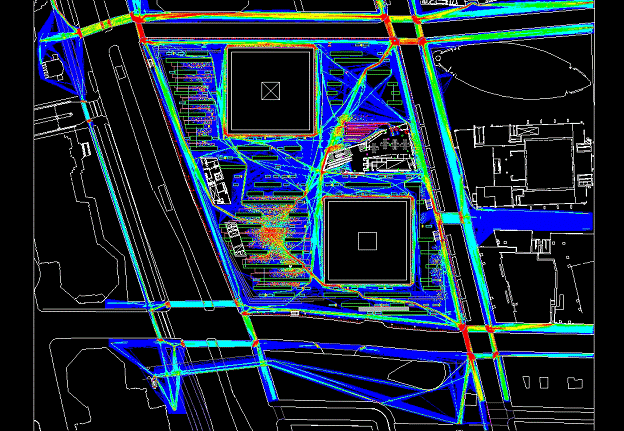 Map displaying the expected utilization of space by pedestrians at the World Trade Center Memorial site, based on modeling by the Louis Berger Group.